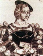 Eleanor of Portugal, wife of Valdemar the Young.